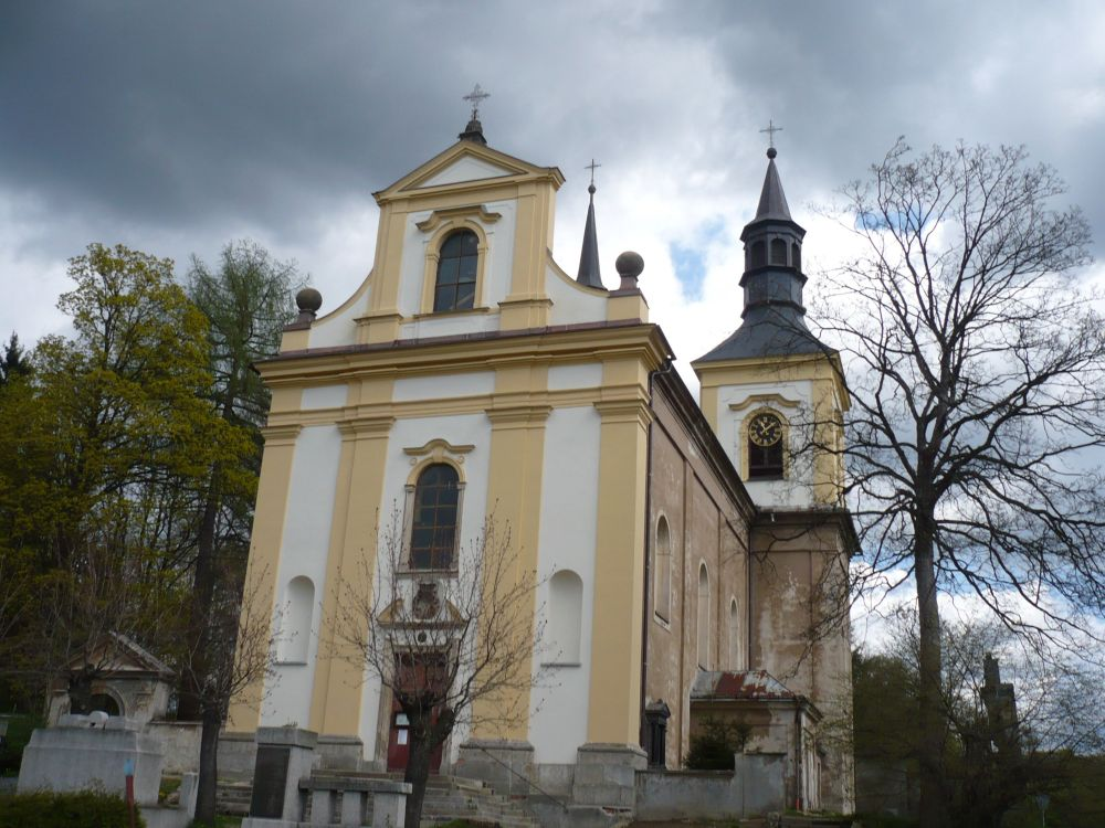 St Wenceslas church in Rychnov u Jablonce nad Nisou, Jablonec nad nisou District, Czech Republic.